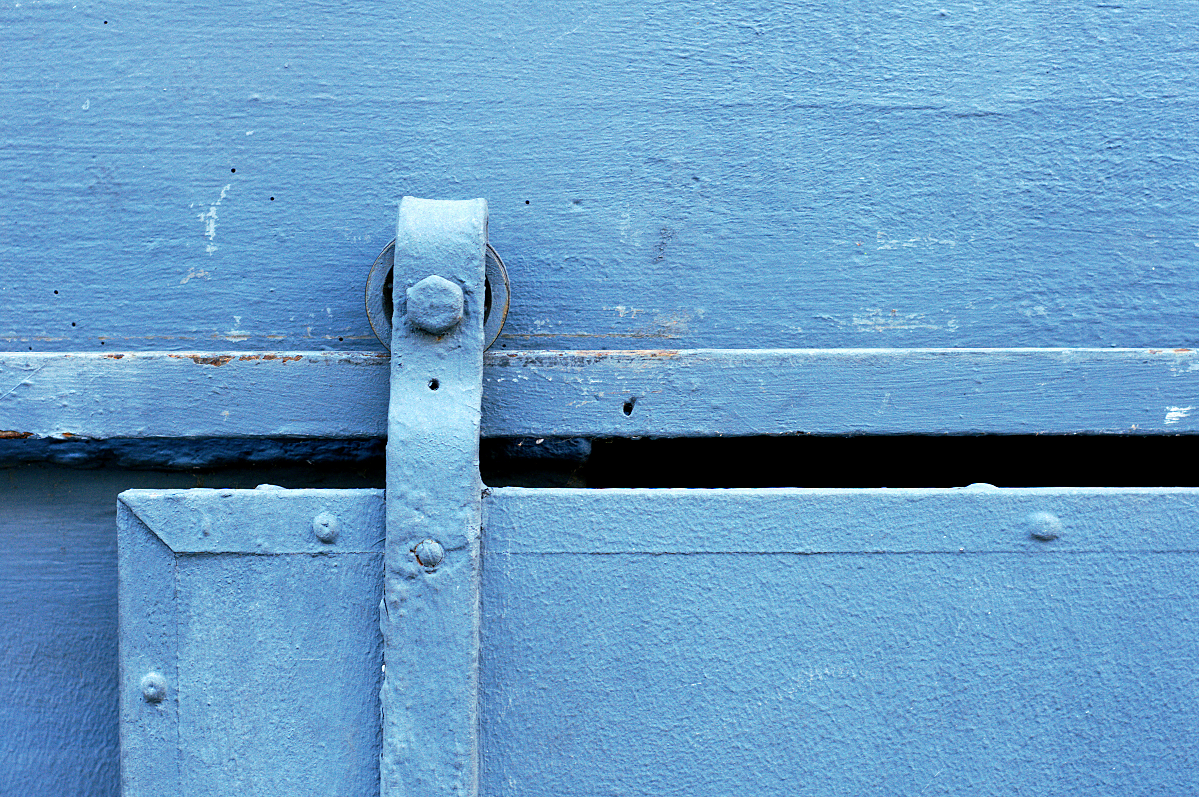 A detail of a sliding door.